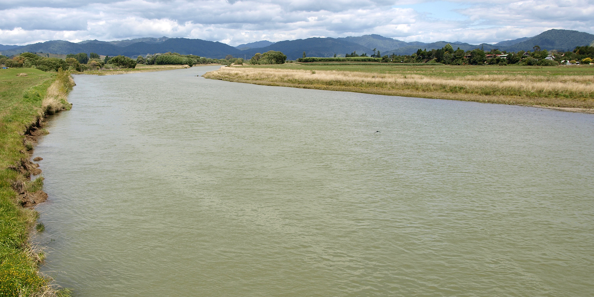 Waioeka River, Bay of Plenty, New Zealand